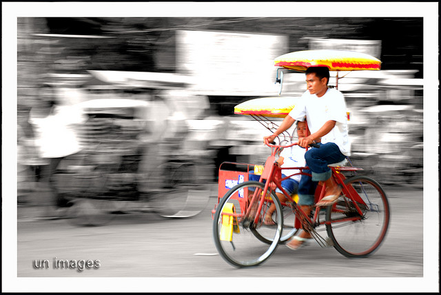 Potpot